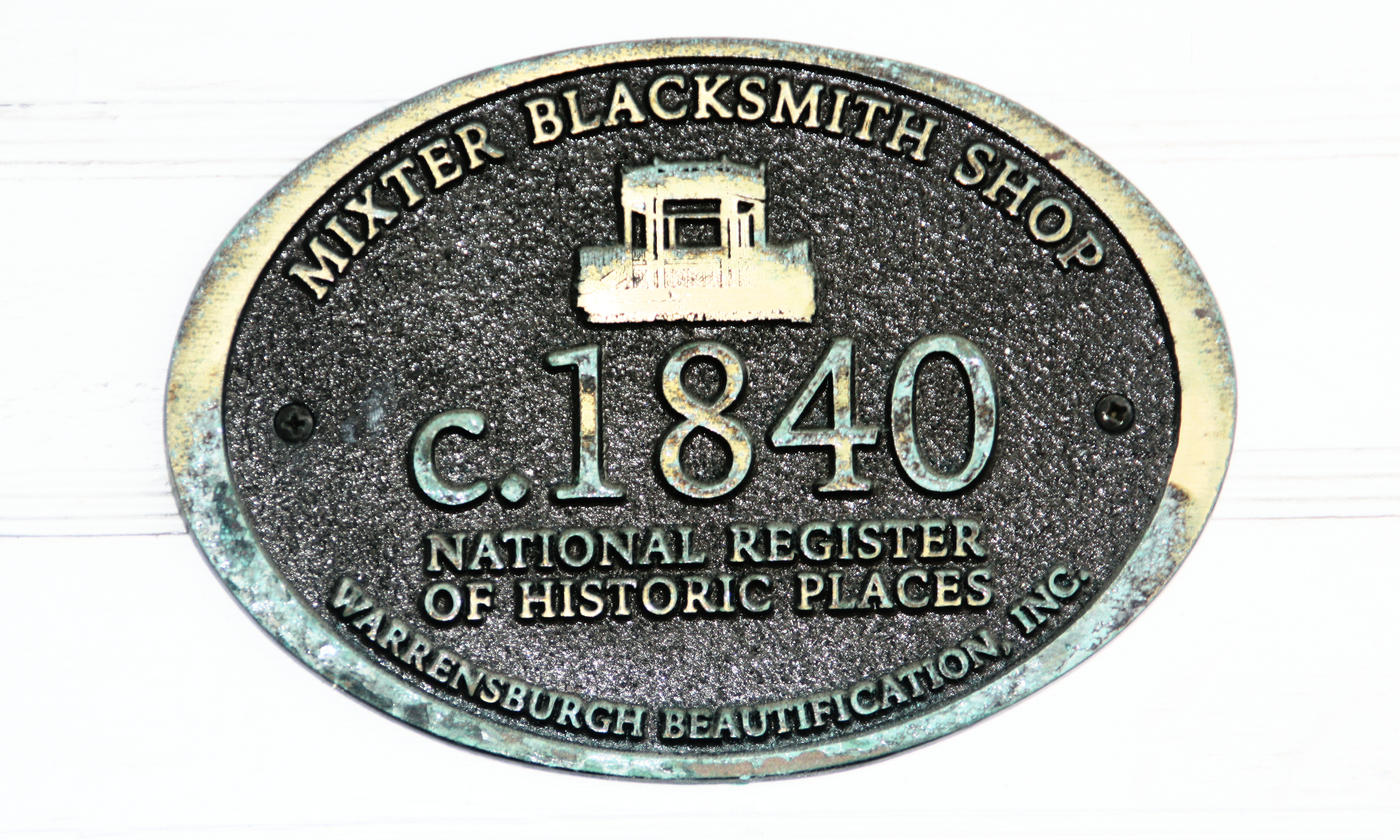 The Mixter Blacksmith Shop, c.1865, listed in the National Register of Historic Places. Located at 3728 Main Street (also called Route 9), Warrensburg, NY. Photo taken in 2016.